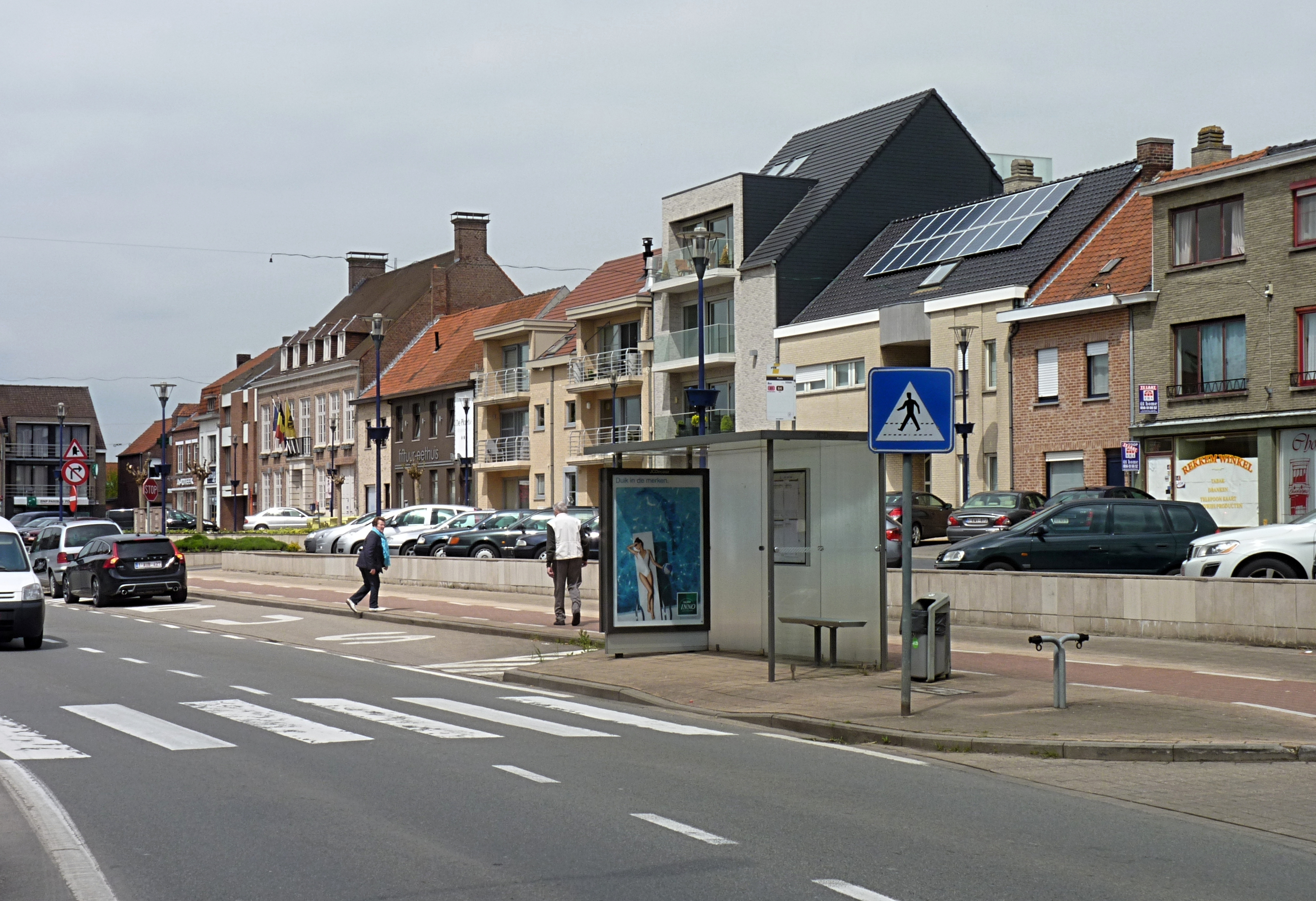 The square of Rekkem, Belgium.